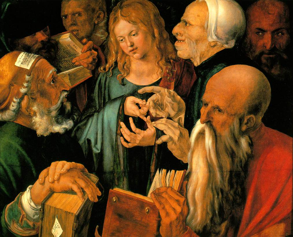 Oil On Wood